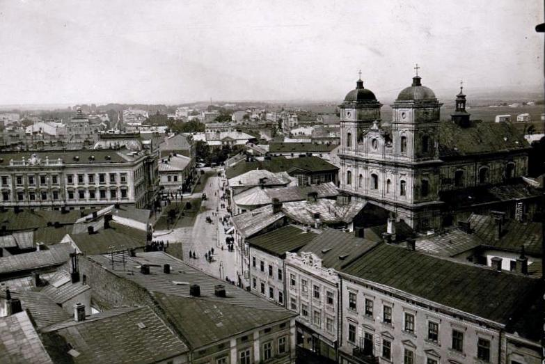 Stanislau - Totalansicht.